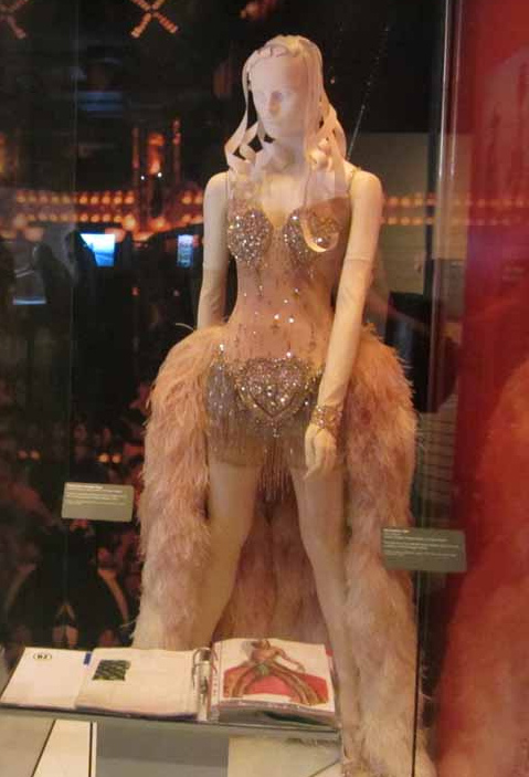 Costume and prop from the film Moulin Rouge! (2001) displayed at the Australian Centre for the Moving Image, Melbourne, Australia.